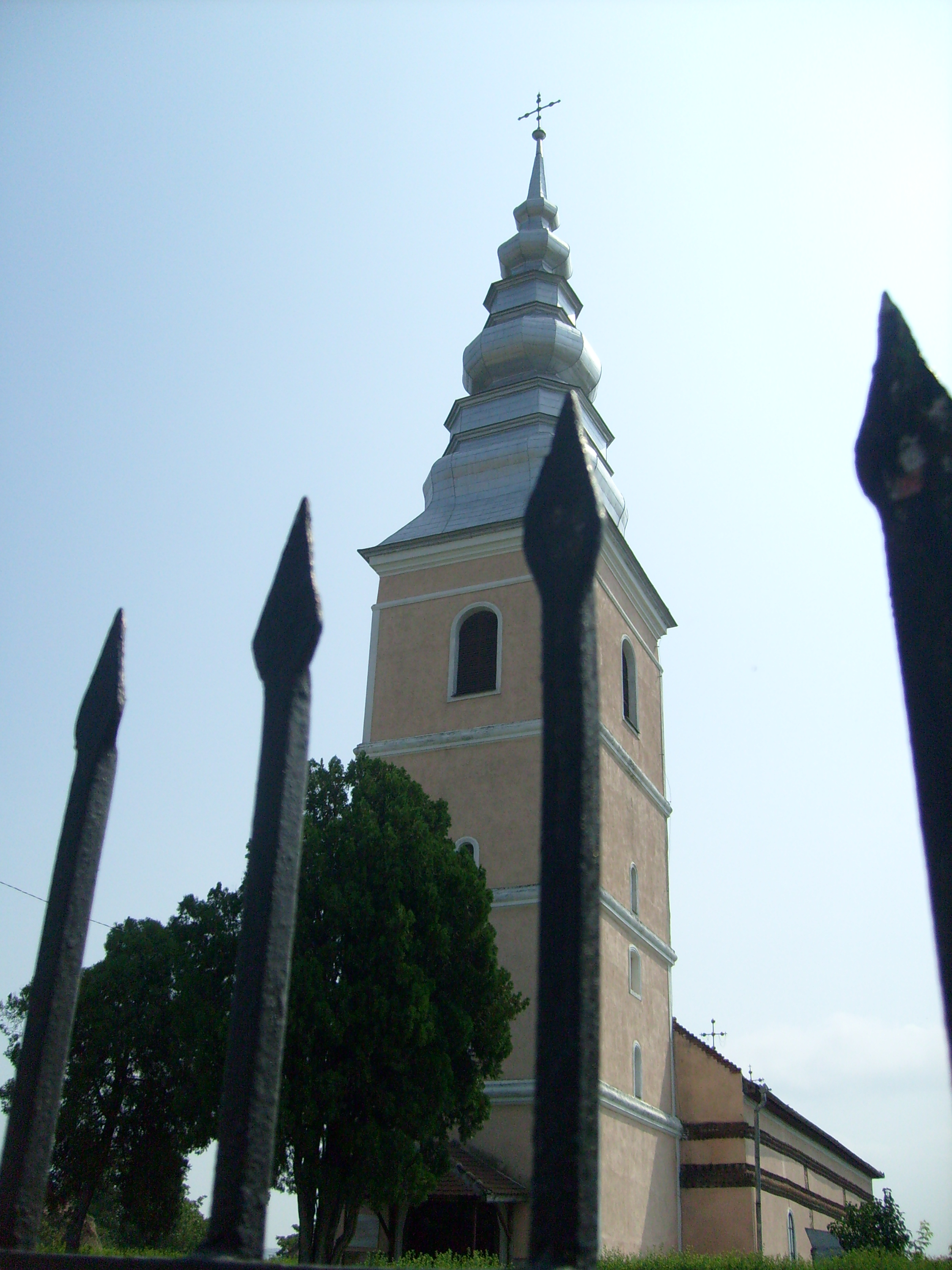 Romanian Uniate (Greek Catholic) Church in Maieri (Alba Iulia). Built 1713.